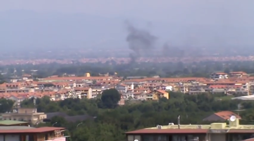 Fire on the area of Villaricca (Italy) appeared the 30th of May 2012. In this area, nicknamed the Land of Fires, many wastes are burned without control by the authorities in the middle of the lands.